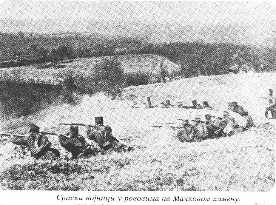 Serbian soldiers in trenches during battle of Drina Српски (ћирилица): Српски војници у рововима током борби на Мачковом камену